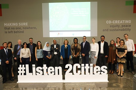 For more